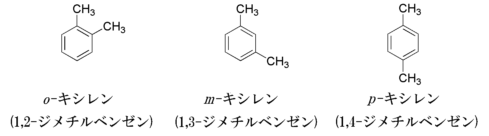 Xylenes, description in Japanese.